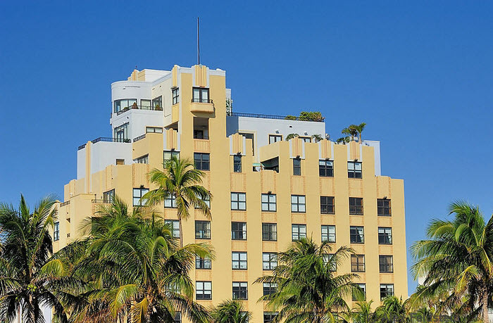 The Tides Hotel on Ocean Drive, Miami beach